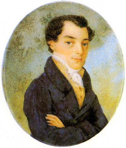 Kondraty Fyodorovich Ryleyev (1795-1826) - Decembrist, poet. Miniature by unknown artist.